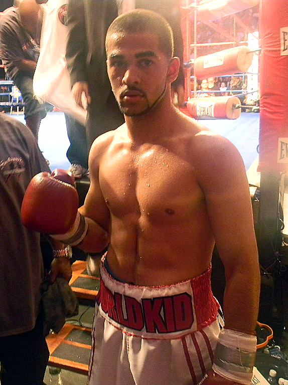 Sadam Ali exiting the ring after knocking to Lenin Arroyo in the Prudential Center, Newark, New Jersey, August 21, 2010.